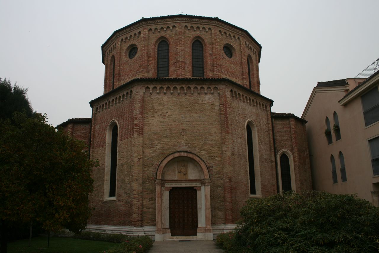 Oratory of Santa Chiara in Vicenza, Italy (entitled to St. Bernardin and St. Claire)